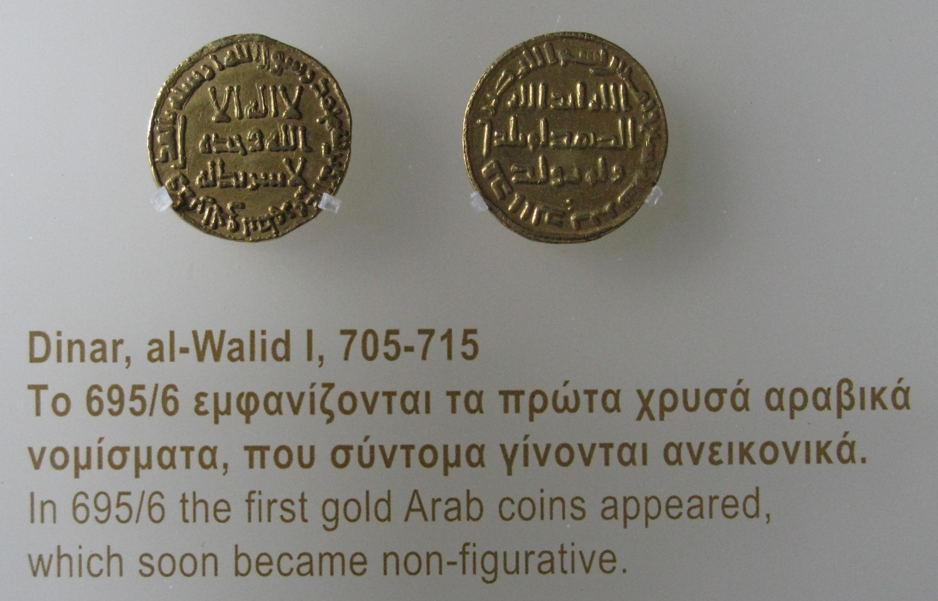 Dinar, Al-Walid I, 705-715. In 695/6 the first gold Arab coins appeared, which soon became non-figurative. Numismatics Museum in Athens.